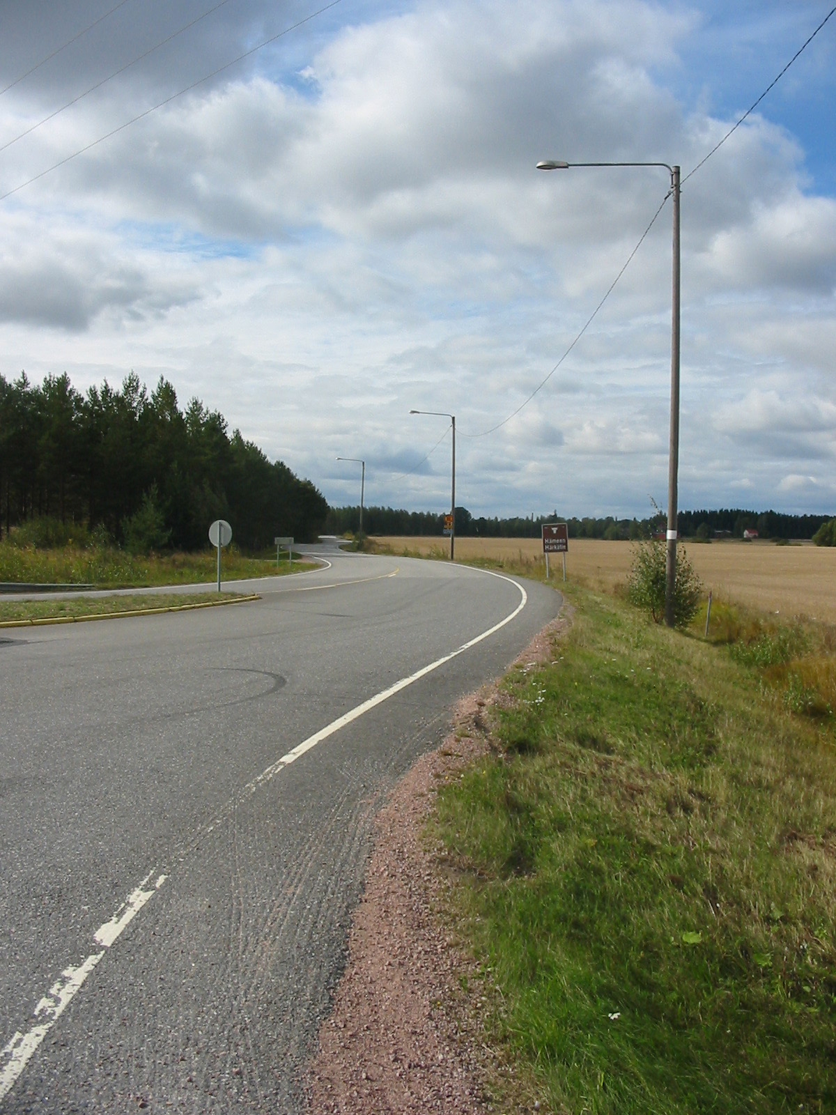 Connecting road 2250, part of the Häme Oxen Road, in Tarvasjoki, Finland